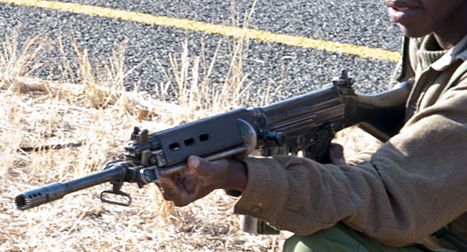 Marine Sgt. Jacob R. Coddel from Billings, Mont. with Co. D Anti-Terrorism Battalion 4th Marine Division, instructs two BDF members on pulling security while moving in a hostile enviornment Aug. 2. The class was one of six U.S. instructed classes on Infantry related tactics.